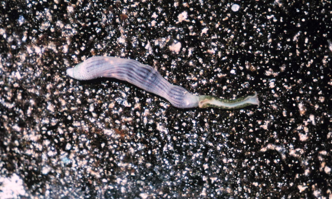 Spoon worm (Echiura)